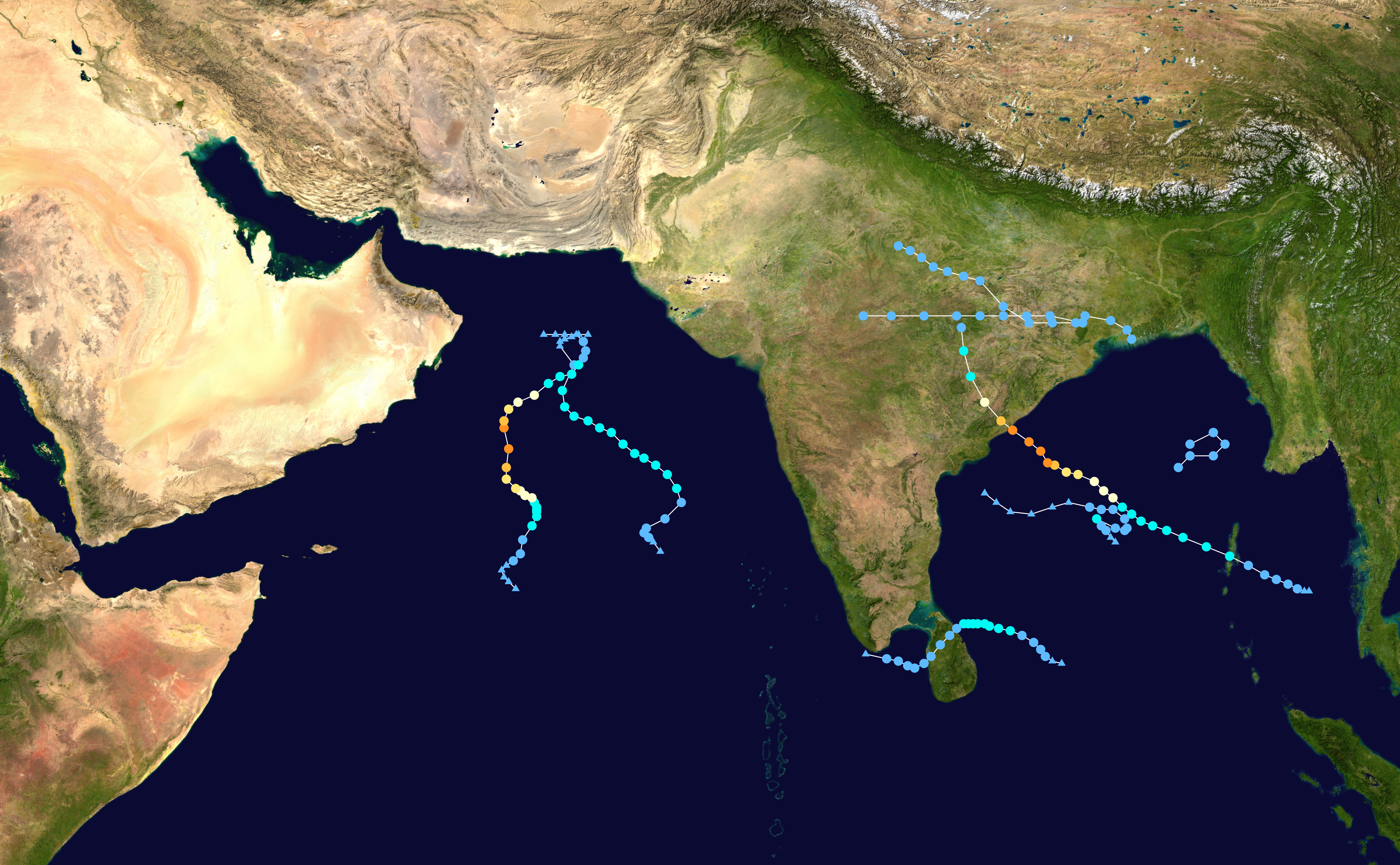 This map shows the tracks of all tropical cyclones in the 2014 North Indian Ocean cyclone season. The points show the location of each storm at 6-hour intervals. The colour represents the storm's maximum sustained wind speeds as classified in the Saffir-Simpson Hurricane Scale (see below), and the shape of the data points represent the type of the storm. Map generation parameters: --xmin 45 --xmax 100 Saffir–Simpson scale Tropical depression≤38 mph≤62 km/h Category 3111–129 mph178–208 km/h Tropical storm39–73 mph63–118 km/h Category 4130–156 mph209–251 km/h Category 174–95 mph119–153 km/h Category 5≥157 mph≥252 km/h Category 296–110 mph154–177 km/h Unknown Storm type Tropical cyclone Subtropical cyclone Extratropical cyclone / Remnant low / Tropical disturbance / Monsoon depression